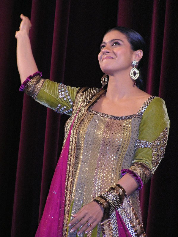 Kajol at 'MNIK' premiere during Berlin International Film Festival 2010.